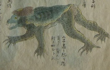 Kappa caught in 1801 in a net Mito Domain's east beach (now Ibaraki Prefecture). From a 1836 copy by Reikai 霊槐 of Koga Tōan 古賀侗庵 's Suiko Kōryaku 水虎考略 (1820). Inscribed "Height 3.5 shaku (about 1 metre), weight 12 kamme (45kg) The chest protudes, the neck is short like a boar's, the back is bent"